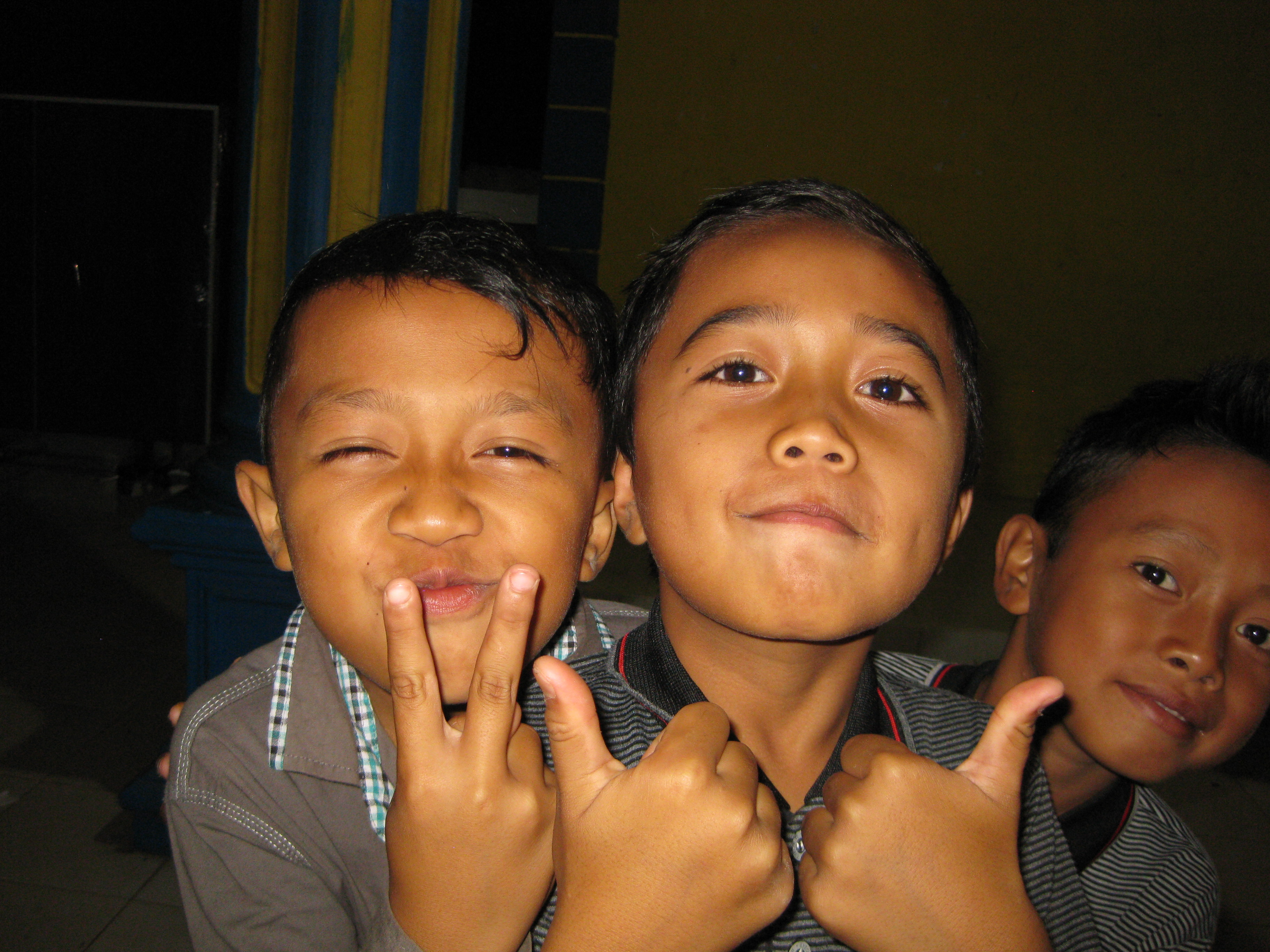 A child from the Tengger Tribe in Pandansari Village.